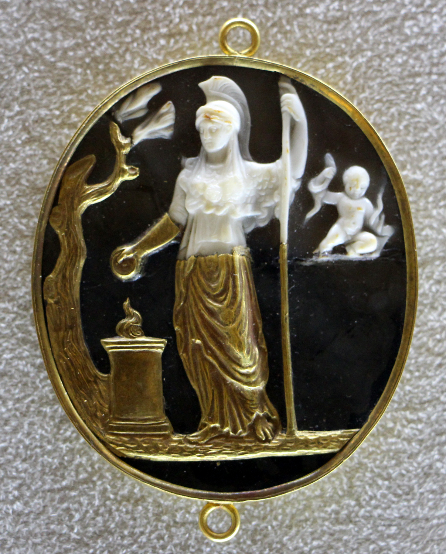 Ancient Roman glyptics in the Museo archeologico nazionale (Florence)